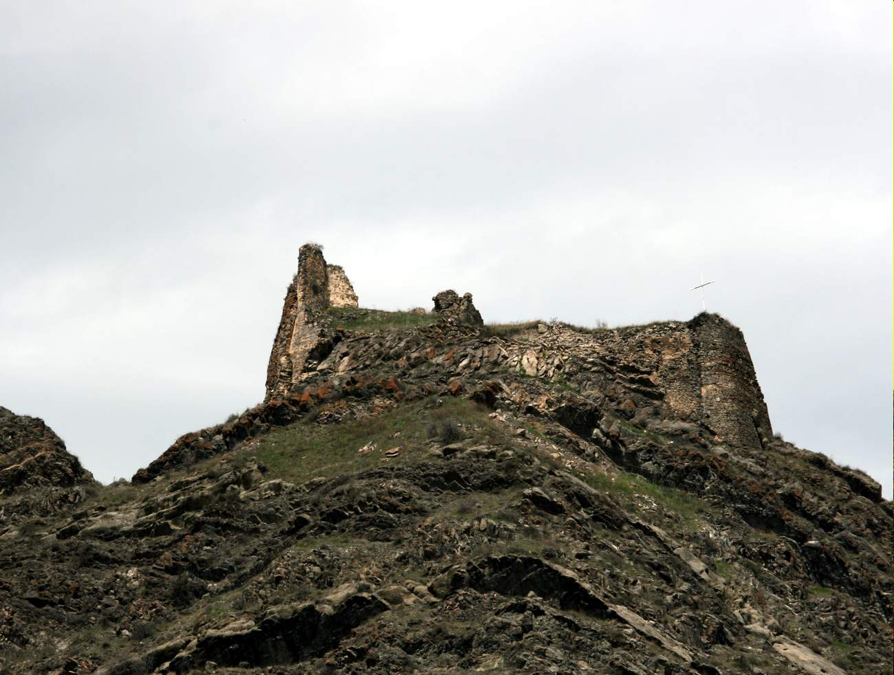 Ateni Fortress at Didi Ateni